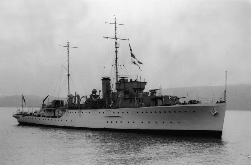 Photograph of British Grimsby class sloop HMS Grimsby.